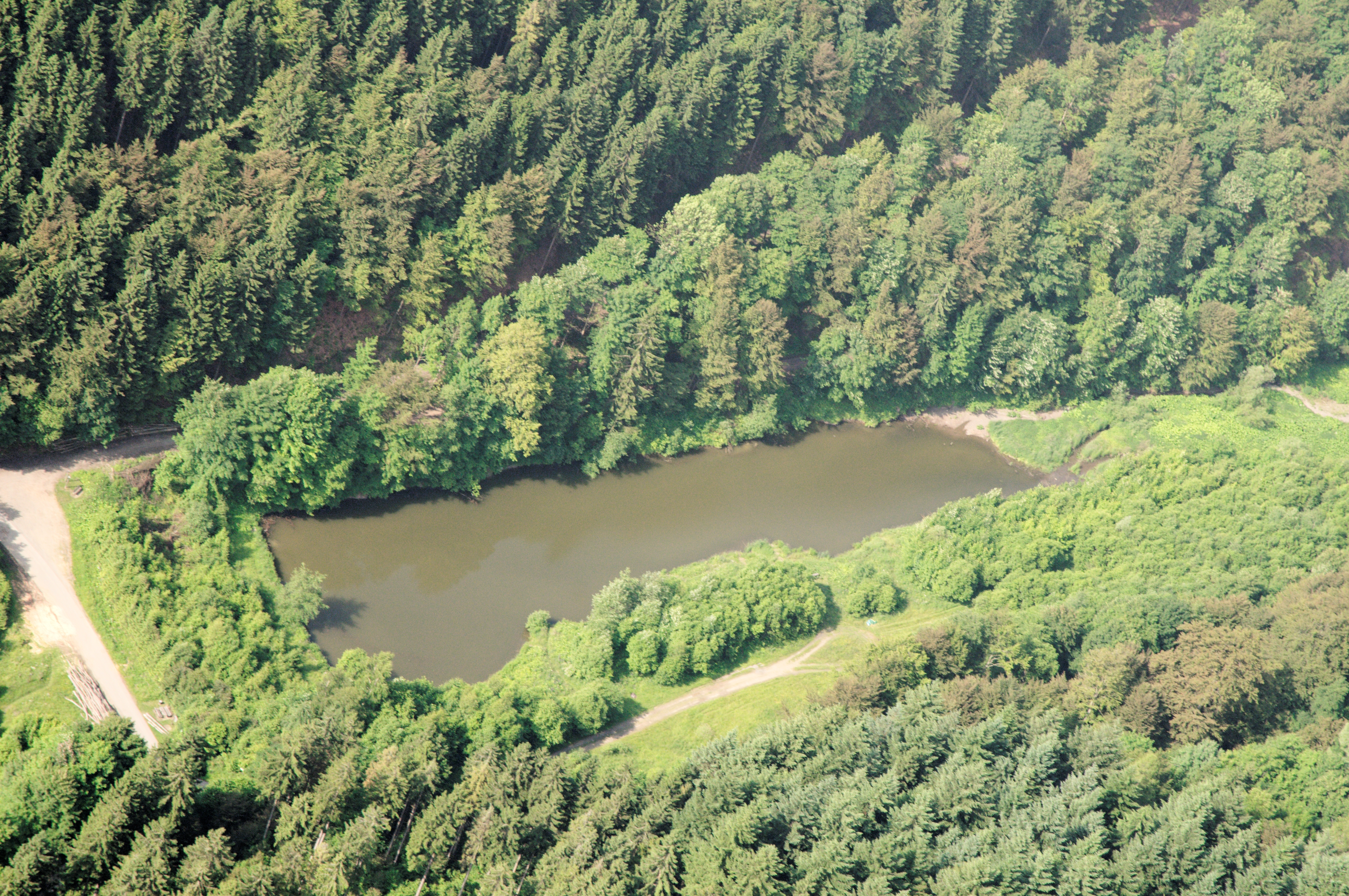 Fotoflug Sauerland-Ost: Der Bodensee östlich von Winterberg; gespeist von dem Bach Helle. The making of this document was supported by the Community-Budget of Wikimedia Germany.